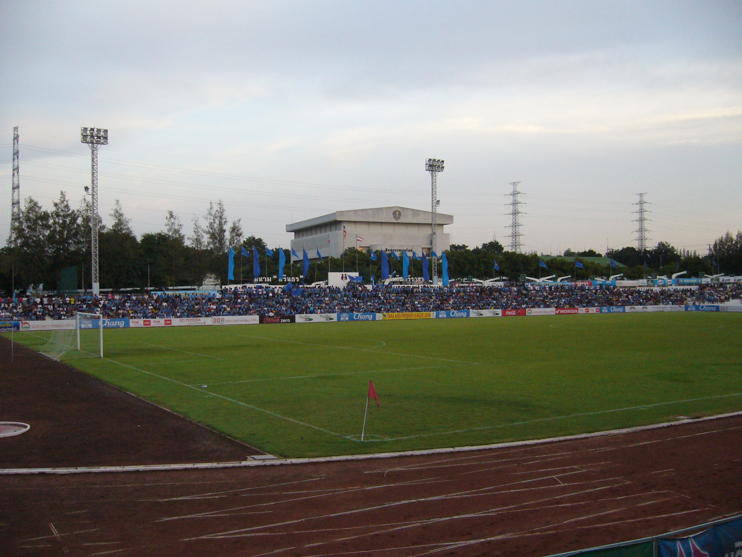 Stadium of the Assumption School Si Racha